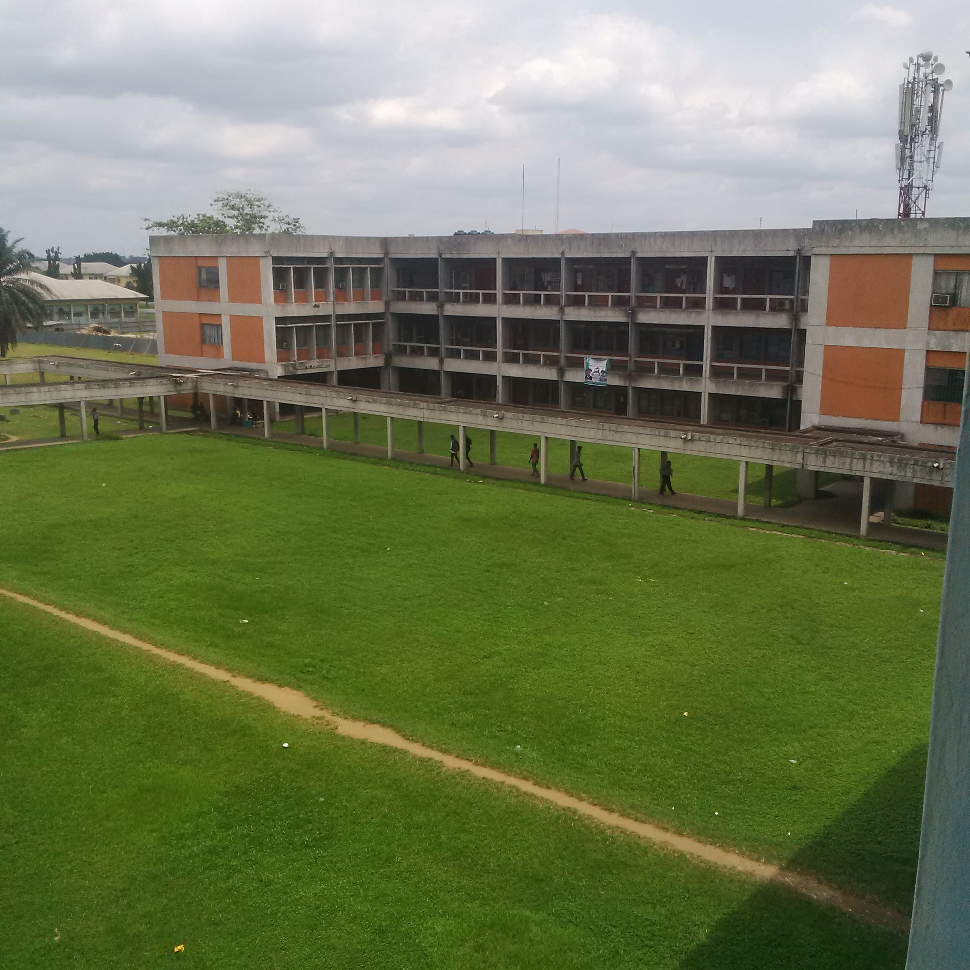 This is a picture of the main buliding of the Faculty of Sciences in the Rivers State University